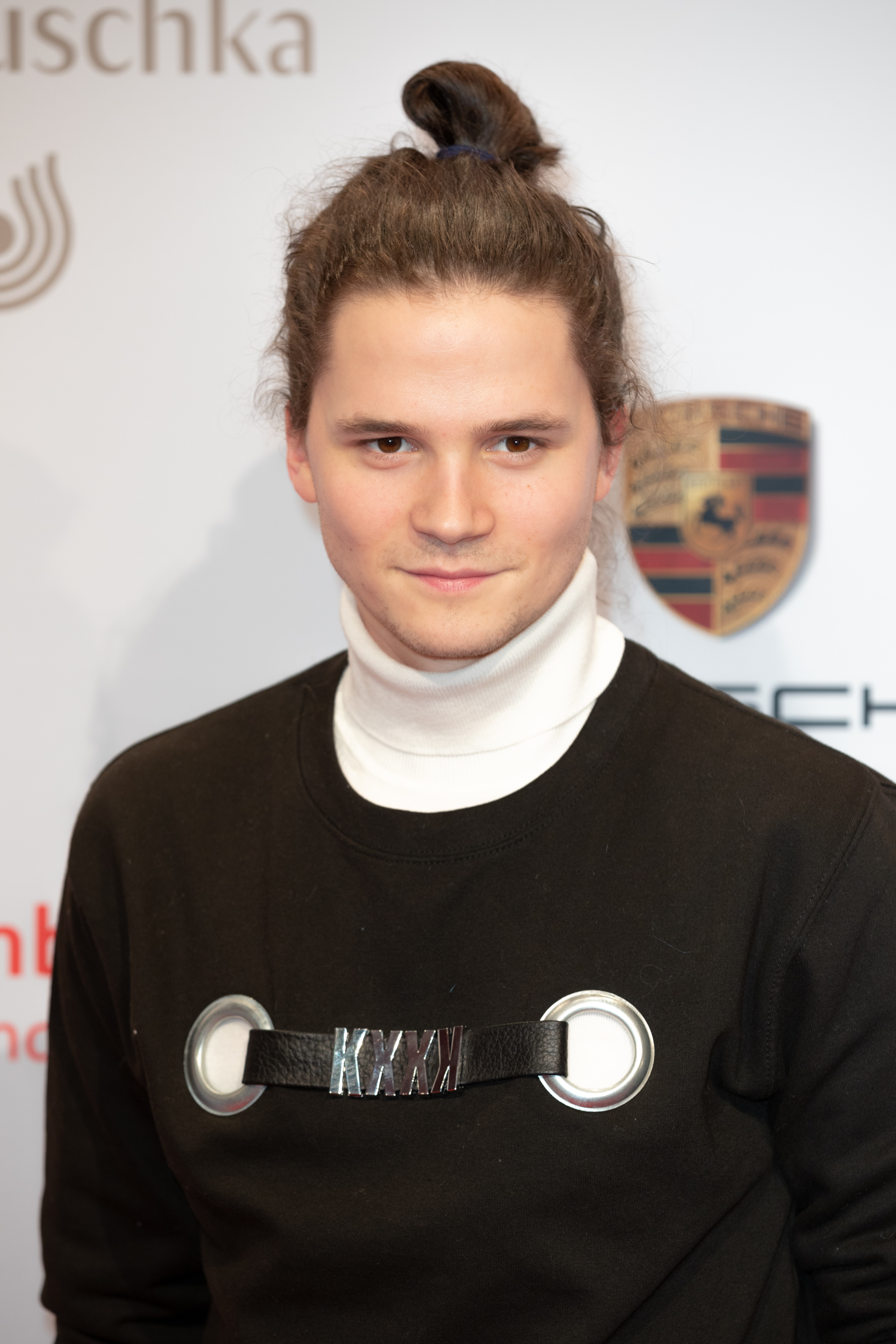 Actor Tilman Pörzgen at the Medienboard Party on the occasion of the 69th Berlinale in Ritz-Carlton, Potsdamer Platz